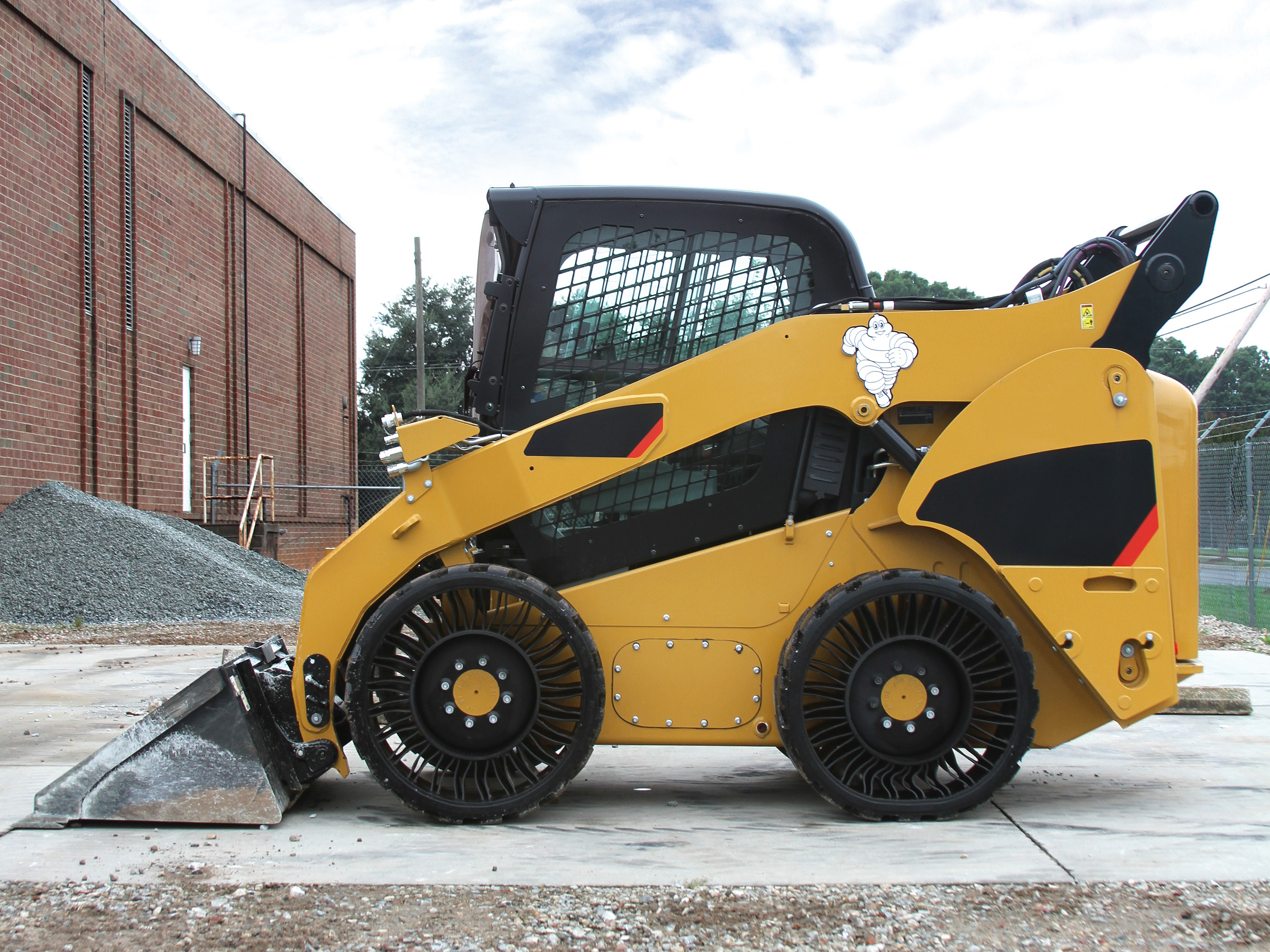 MICHELIN 12N16.5 X-TWEEL SSL Airless Radial tire on skid steer